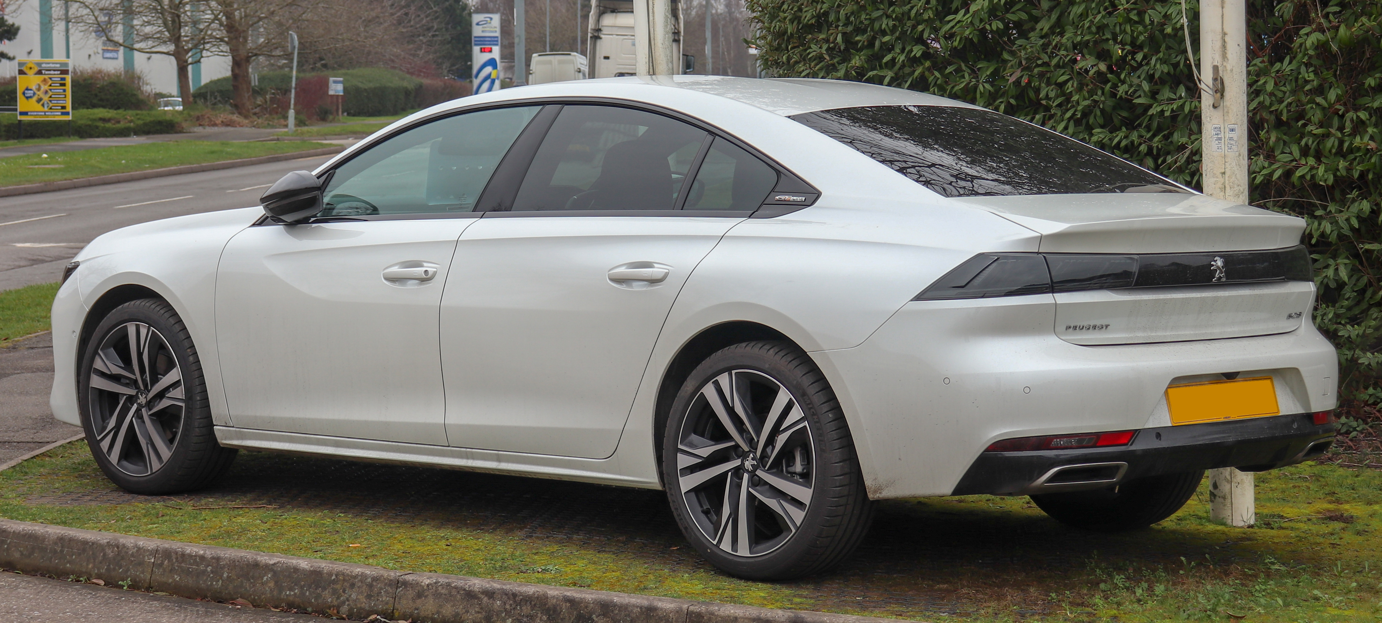 2019 Peugeot 508 GT-Line BlueHDi 1.5 (130 PS) Rear Taken in Leamington Spa